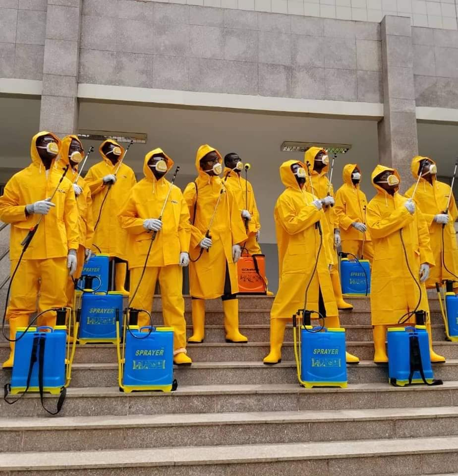 This is an image with the theme "Africa on the Move or Transport" from: Ivory Coast